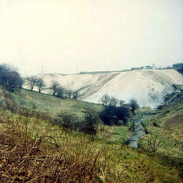 Moston Brook and the White Hills, east of Belgrave Road, November 1970